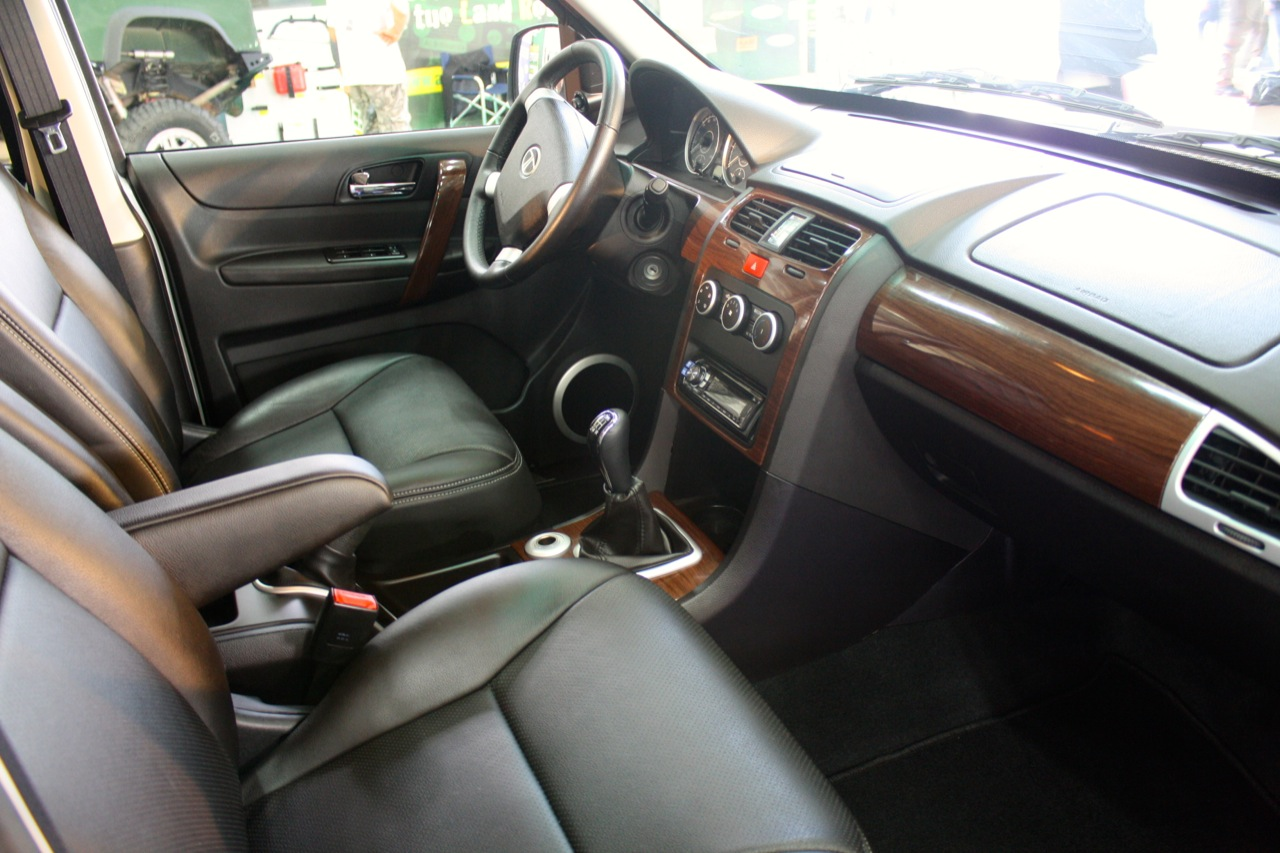 2016 Tata Safari Storme interior